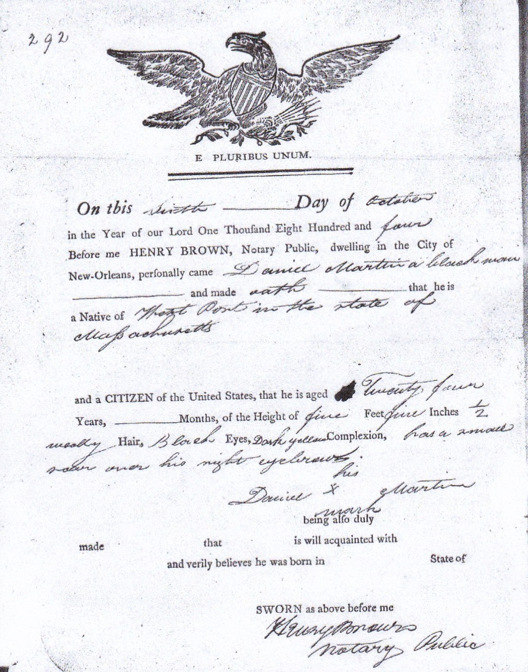 Daniel Martin is listed as born in West Port, Massachusetts; he is described as age 24, 5’ 5’’ and ½ inches high with woolly hair, black eyes and dark yellow complexion with a small scar over his right eyebrow. certificate issued 6 Oct 1804.On 22 June 1807 an incident took place altered Martin's life. This was the impressment of American seamen from the USS Chesapeake. The British vessel HMS Leopard seized four men Daniel Martin, John Strachan, William Ware and Jenkin Radford, claiming three were from HMS Melampus, and Jenkin Ratford, formerly on the HMS Halifax.